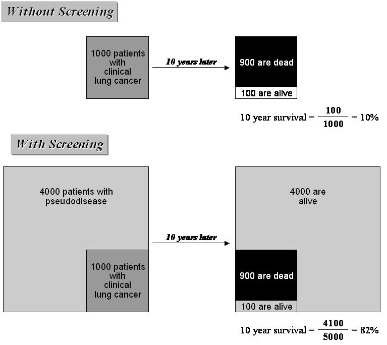 Shows how overdiagnosis inflates cancer survival statistics